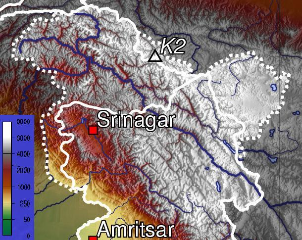 Topographic map of Jammu and Kashmir. Crop from